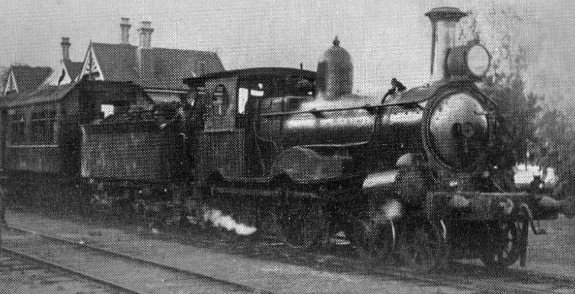 NSWGR CG Class Locomotive 4-4-0 Passenger Type